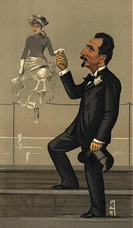 Caricature of M Jan Marie Constantin van Beers (1852-1927). Caption read "The Modern Wiertz".